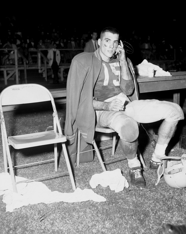 Persistent URL: Local call number: TD00415E Title: Miami Hurricanes quarterback Fran Curci on the sideline during football game with FSU in Tallahassee, Florida. Date: November 8, 1957 Physical descrip: 1 photonegative - b&w - 4 x 5 in. Series Title: Tallahassee Democrat Collection Repository: State Library and Archives of Florida 500 S. Bronough St., Tallahassee, FL, 32399-0250 USA, Contact: 850.245.6700